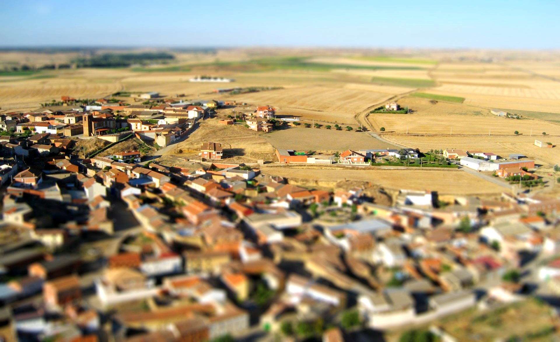 Castrogonzalo (Zamora)